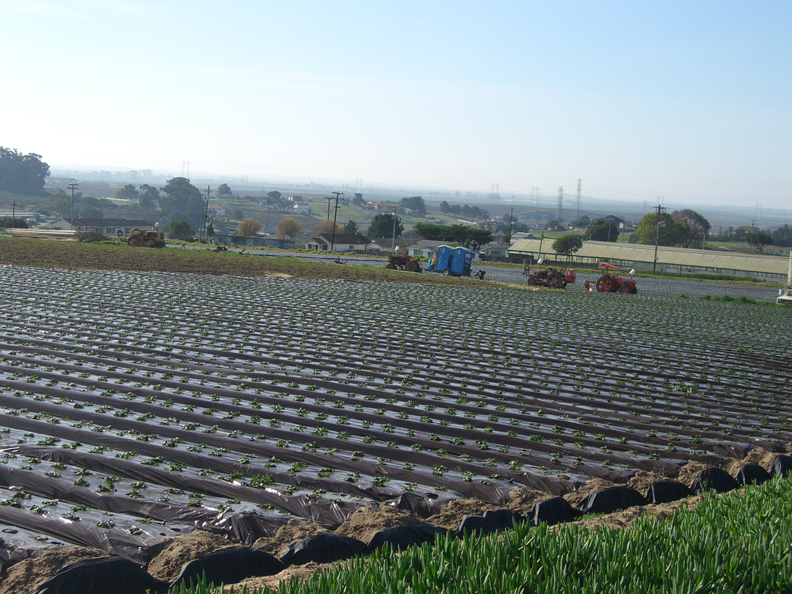 Strawberry Fields near Amaral Road Elkhorn